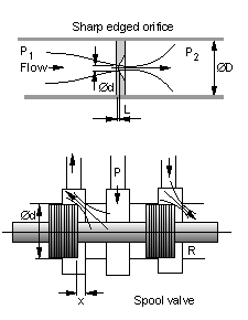 Hydraulic restriction, orifice and spool valve restrictions. Flow = Area x Cd x SQRT(2 x Pressuredrop/density)